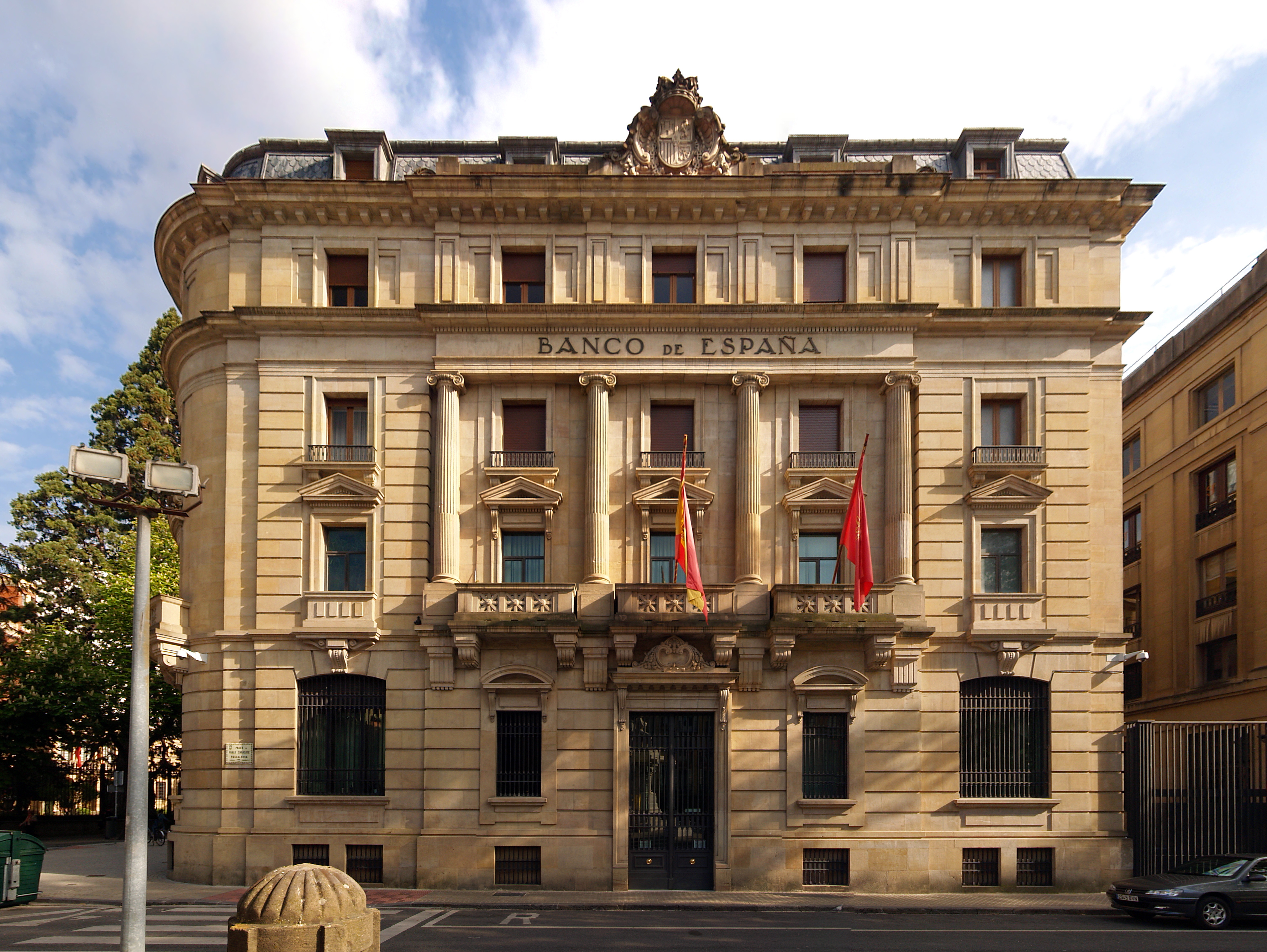 Banco de España, Paseo de Pablo Sarasate, Pamplona. Stitch of 3 vertical images.